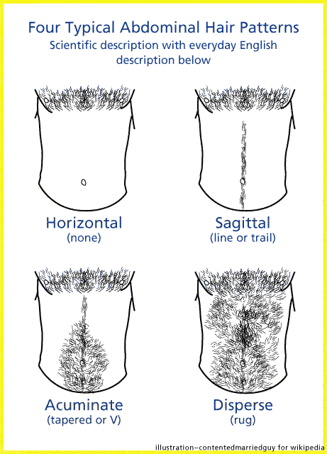 Made by myself.